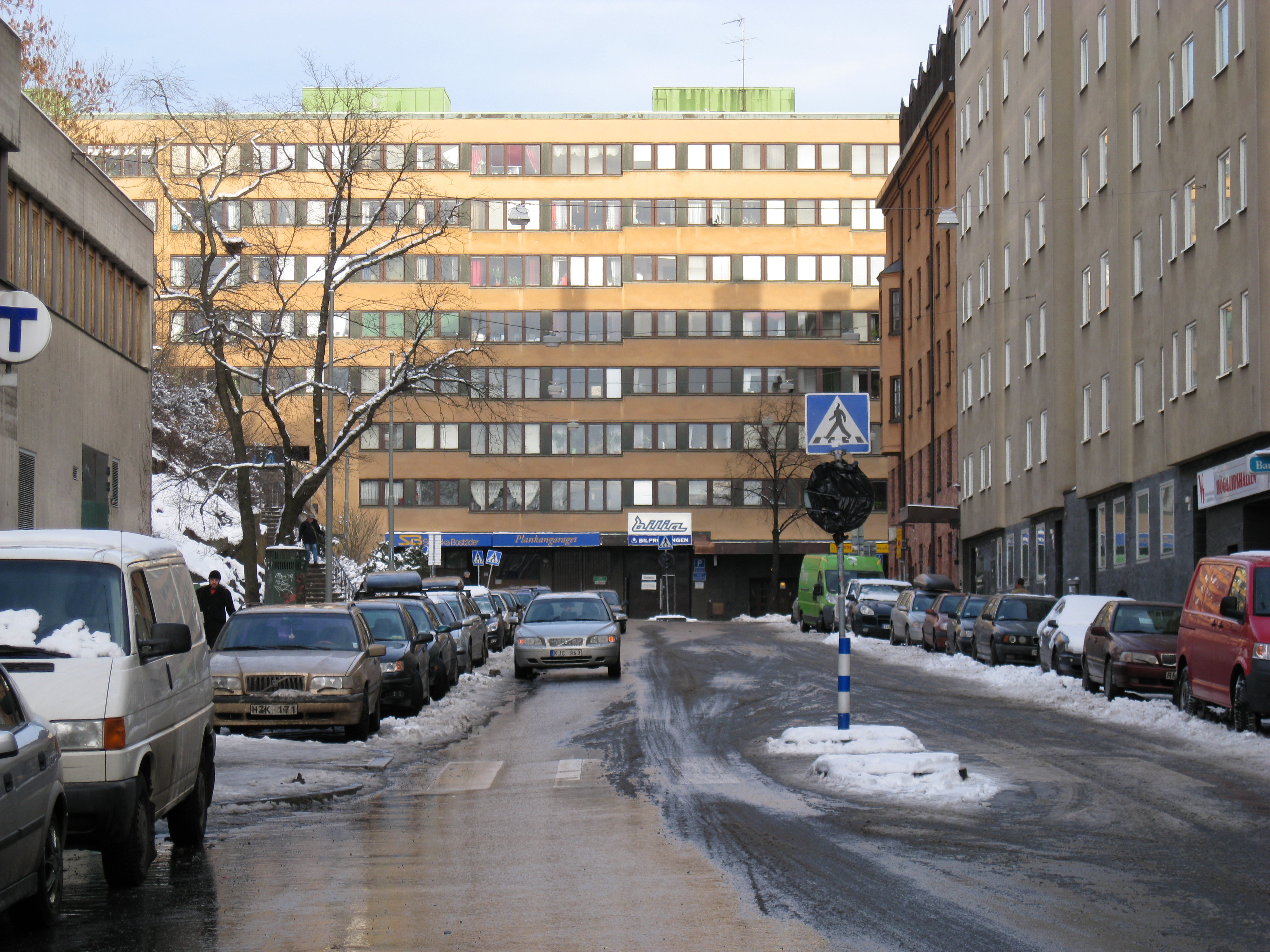 Hornsbruksgatan in Stockholm